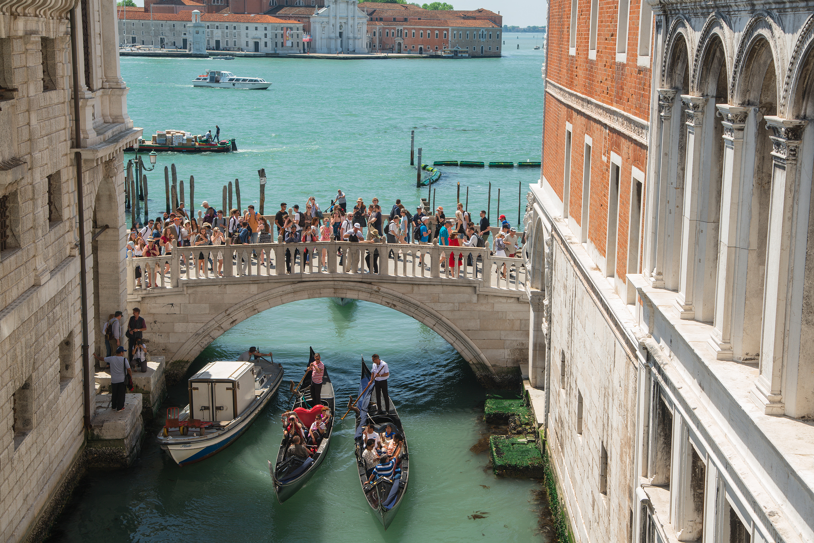 View from the bridge which part of the Doge's Palace